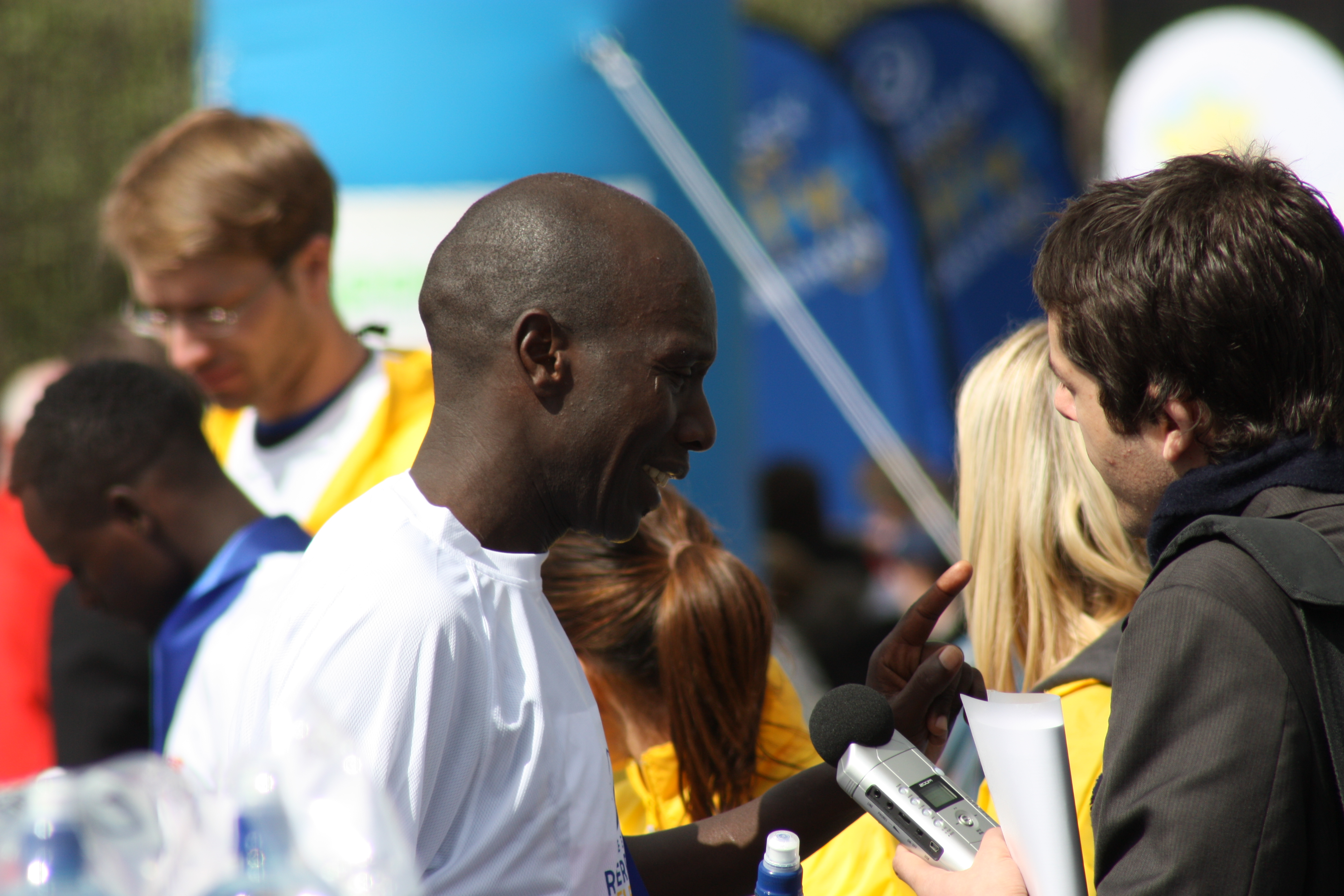 John Mutai (Kenya), runner-up in the Belfast City Marathon 2010, after the finish at Ormeau Park, Ormeau Road, Belfast, Northern Ireland, May 2010. He had won the event for the previous three years.